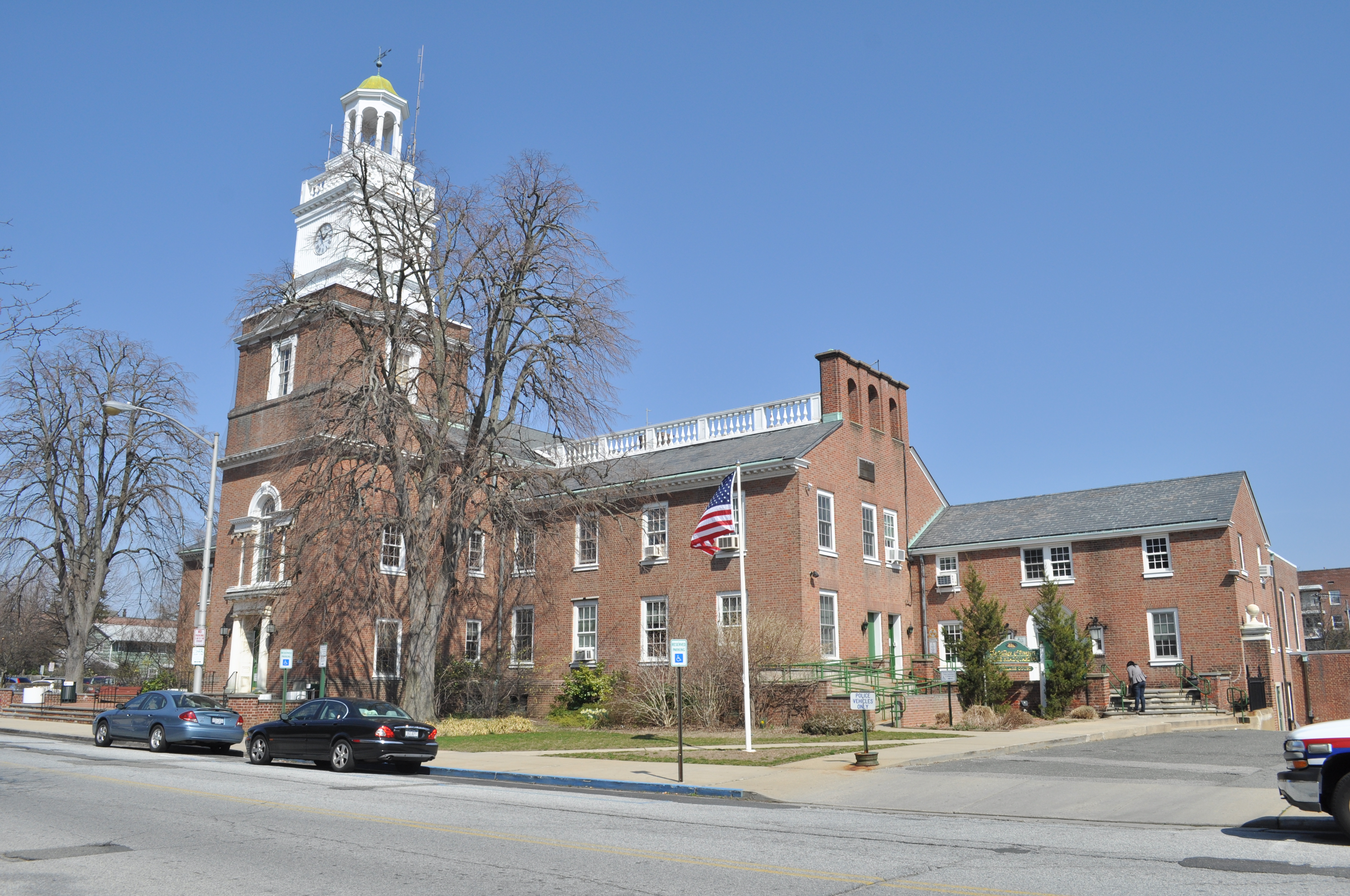 Municipal Building, Freeport, Long Island, New York.